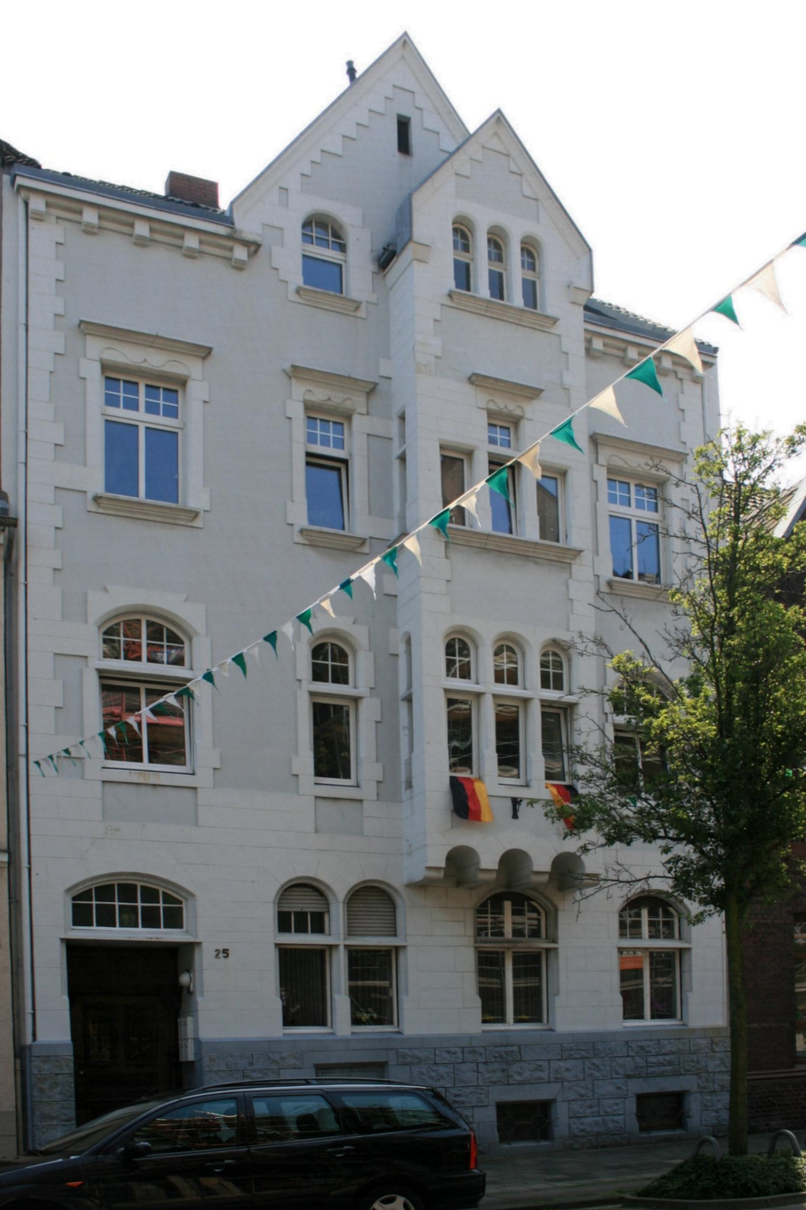 Cultural heritage monument No. R 037 in Mönchengladbach